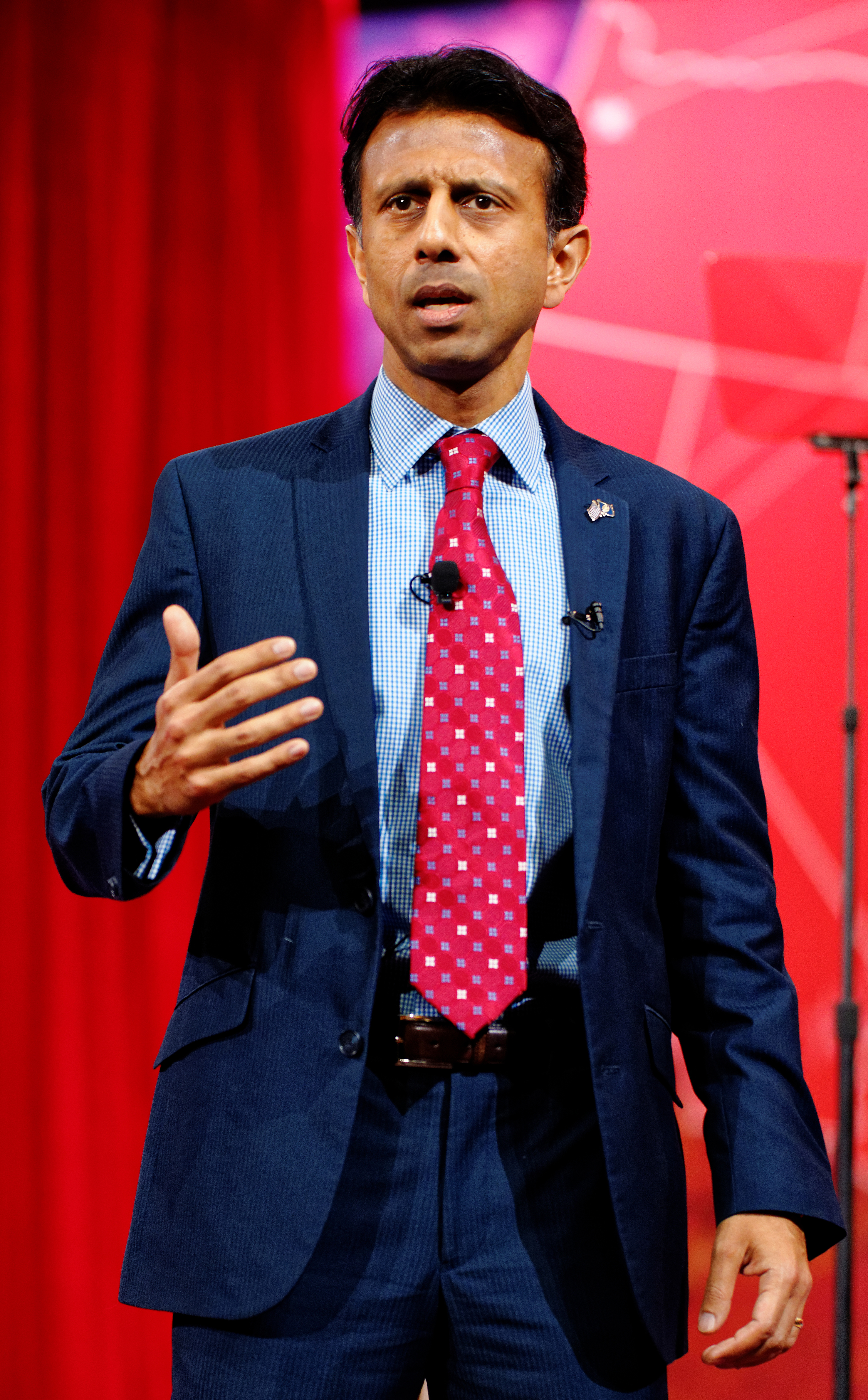 Governor Bobby Jindal, of Louisiana, speaks at CPAC in March 2015